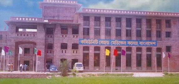 College Building of Community Based medical college Bangladesh,situated at winnerpar, Mymensingh